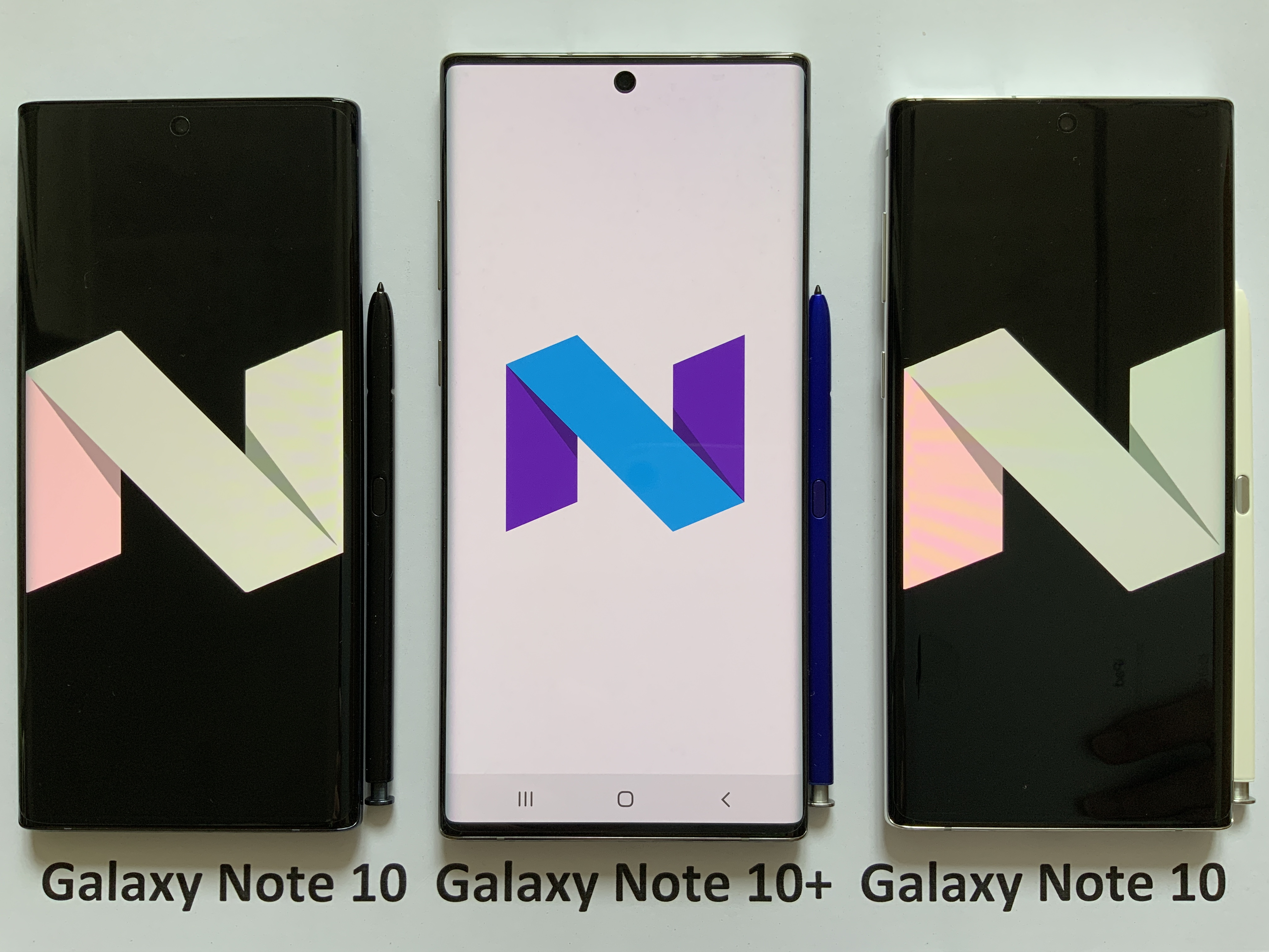 Android Nougat Easter eggs shown on Samsung Galaxy Note 10